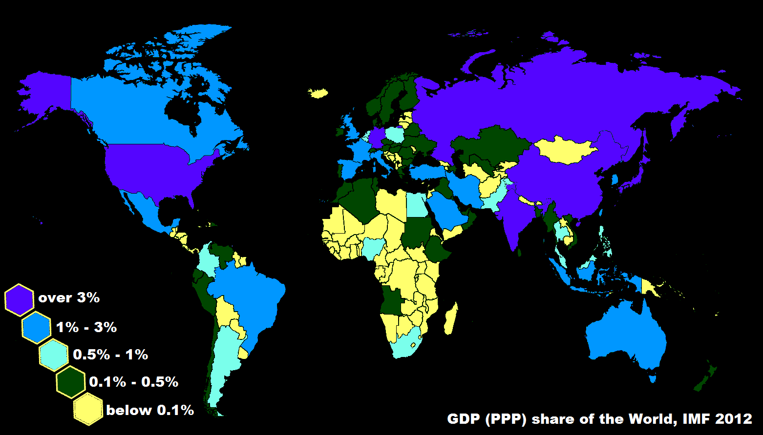 Gross domestic product based on purchasing-power-parity (PPP) share of world total in 2012 imf